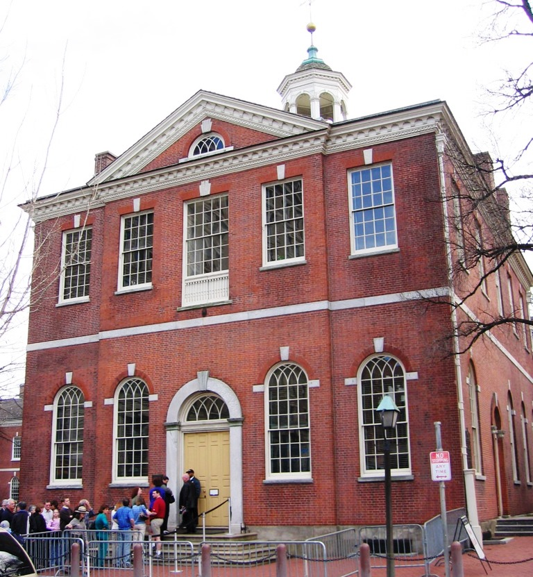 Old City Hall - Supreme Court Building, SW corner 5th & Chestnut Streets, Philadelphia, Pennsylvania, USA This served as Philadelphia's city hall, and housed the U.S. Supreme Court, 1790-1800, during Philadelphia's tenure as the temporary capital of the United States.